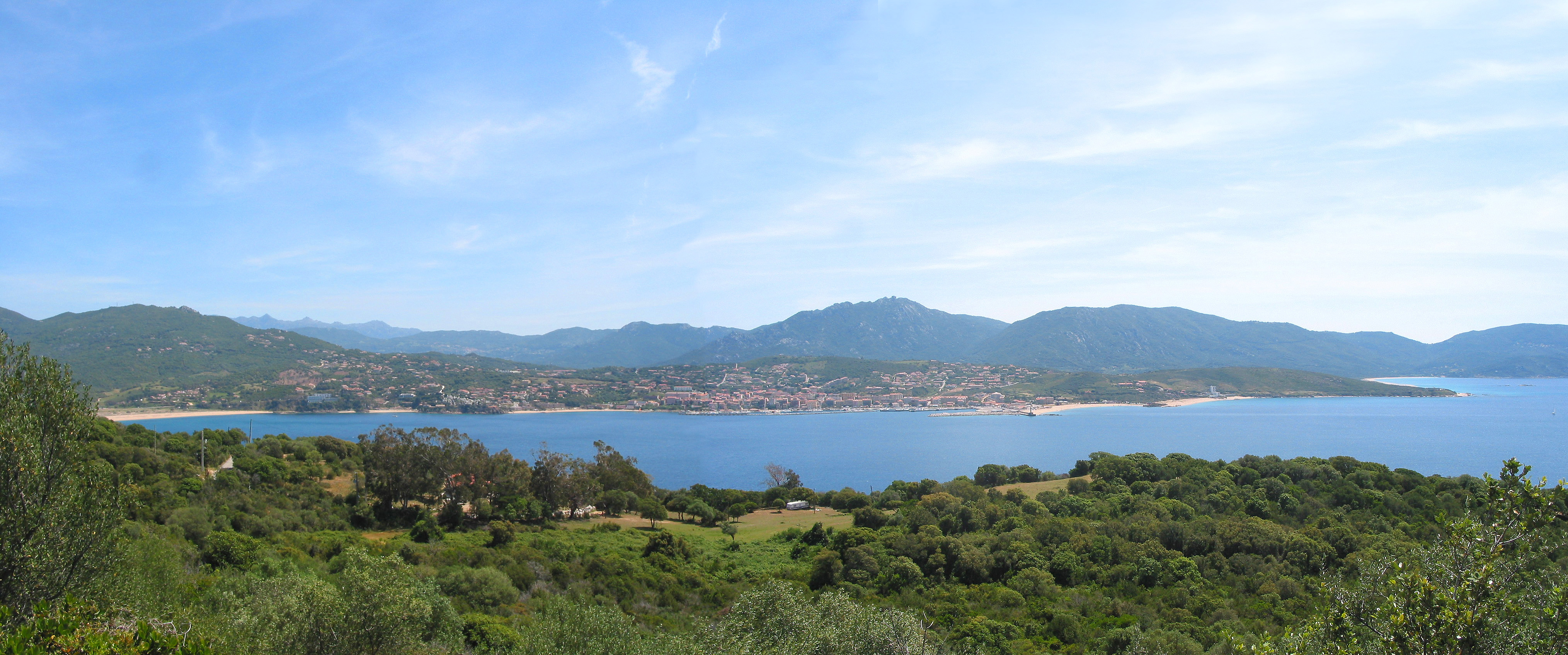 Propriano, Corse-du-Sud - France, the Valinco Gulf and the city. Corsu: Prupià Francia (Corsica suttana), u golfu di Valincu è u cita. Walon: Propriano Corse-du-Sud (France), li Golfe di Valinco èt l'vile.